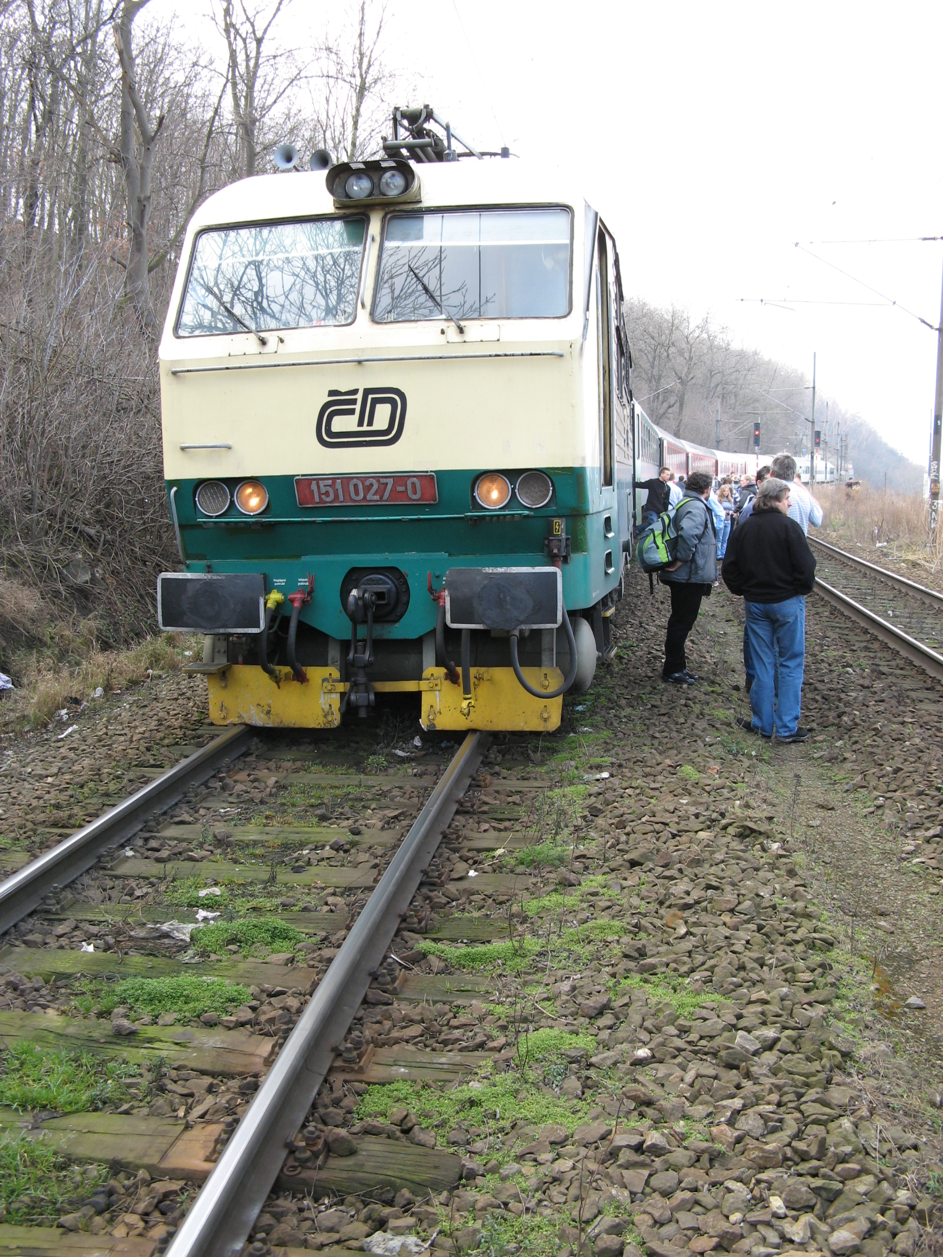 Derailment of train EC 107 (Prague-Warsaw) in Prague on 17th February 2007